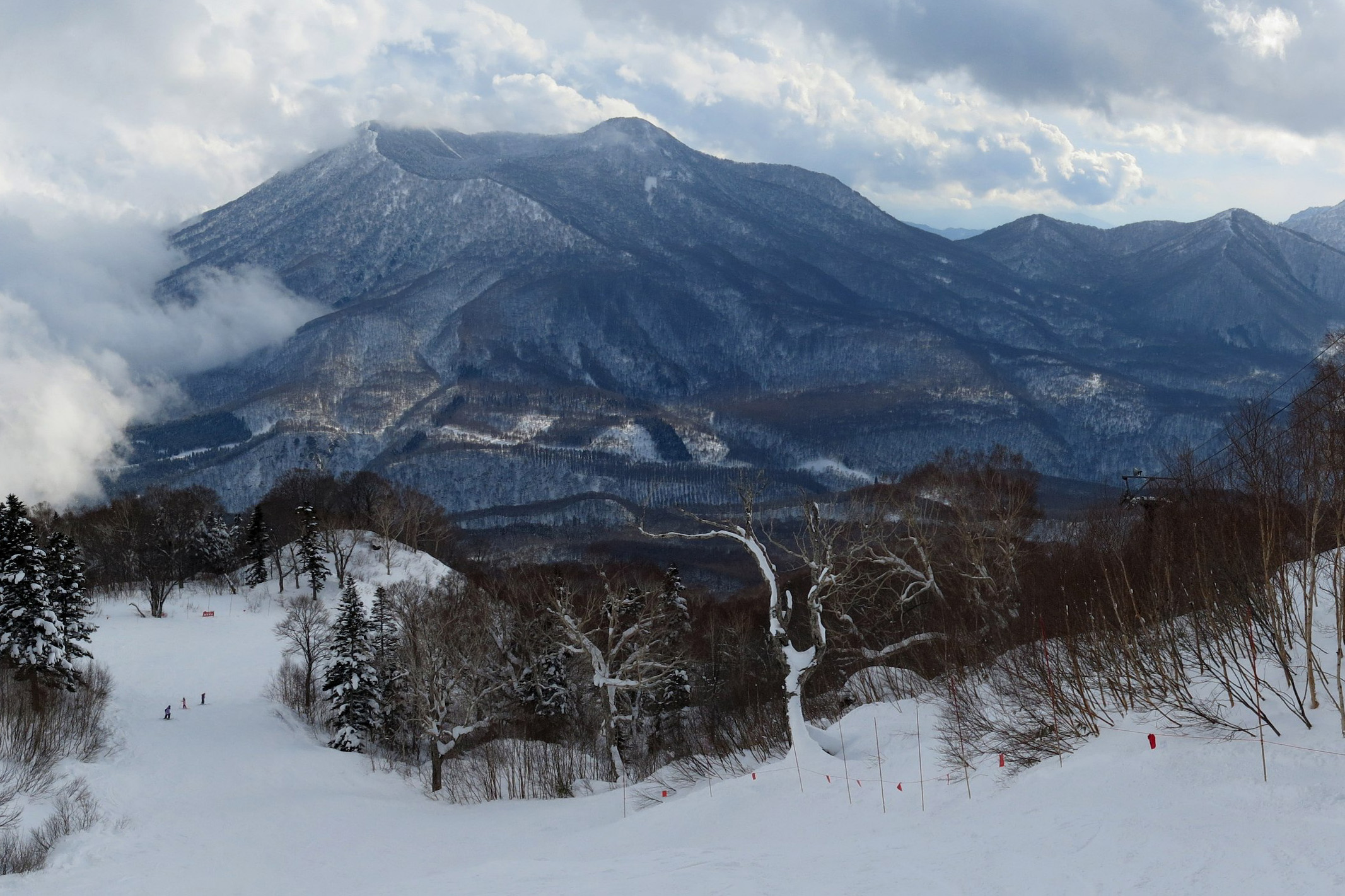 Mount Kurohime (Kurohimeyama) seen from the north in Nagano Prefecture, Honshu, Japan.